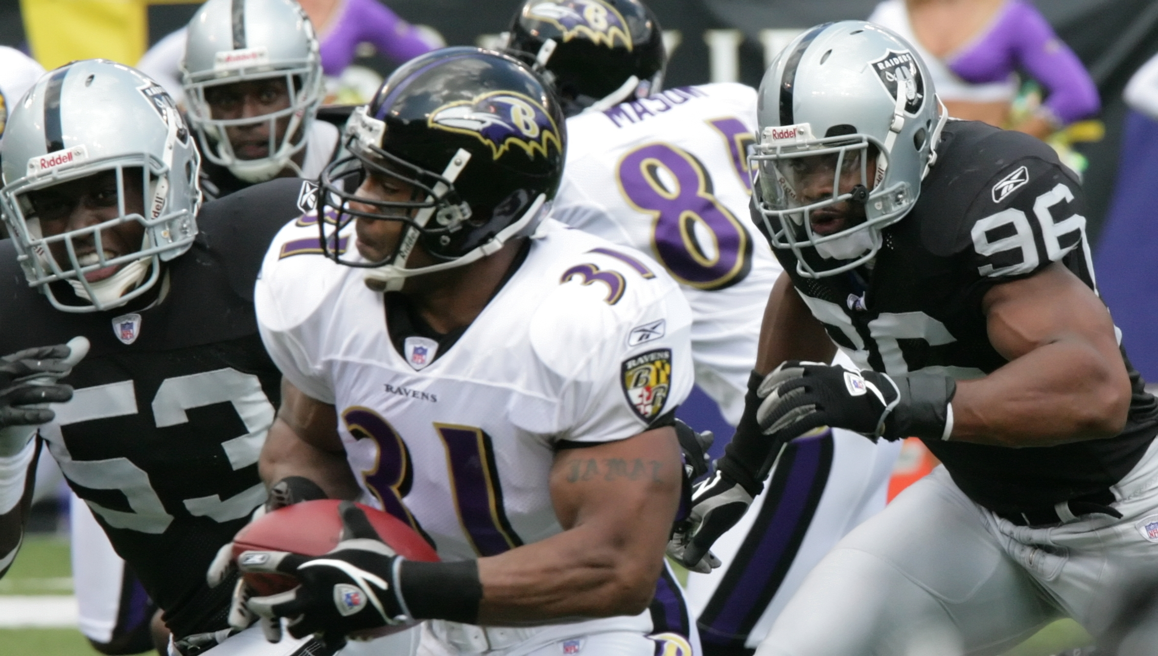 Oakland Raiders vs Baltimore Ravens game of Sept 17, 2006, L-R: Thomas Howard (#53, Raiders); Jamal Lewis (#31, Ravens); Grant Irons (#96, Raiders)